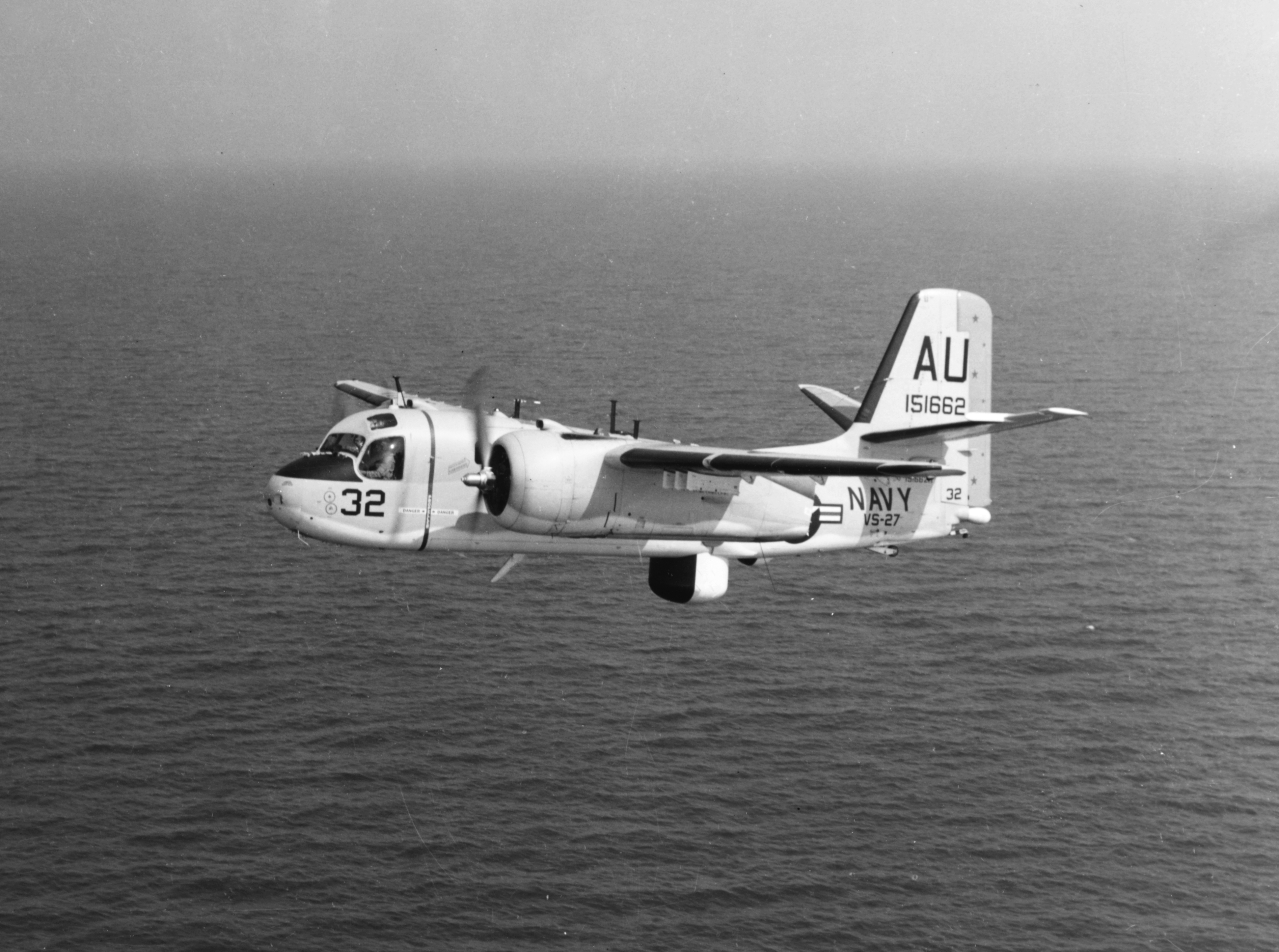 A U.S. Navy Grumman S-2E Tracker (BuNo 151662) of Anti-Submarine Squadron 27 (VS-27) "Pelicans" in flight. VS-27 was assigned to Carrier Anti-Submarine Air Group 56 (CVSG-56) from 1965 to 1969, using the tactical numbers 3x-4x.